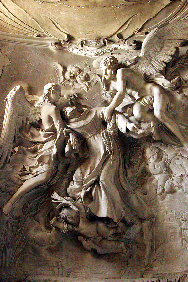 Francesco Baratta: "San Francesco in Estasi". Raymondi Chapel in the church of San Pietro in Montorio in Rome